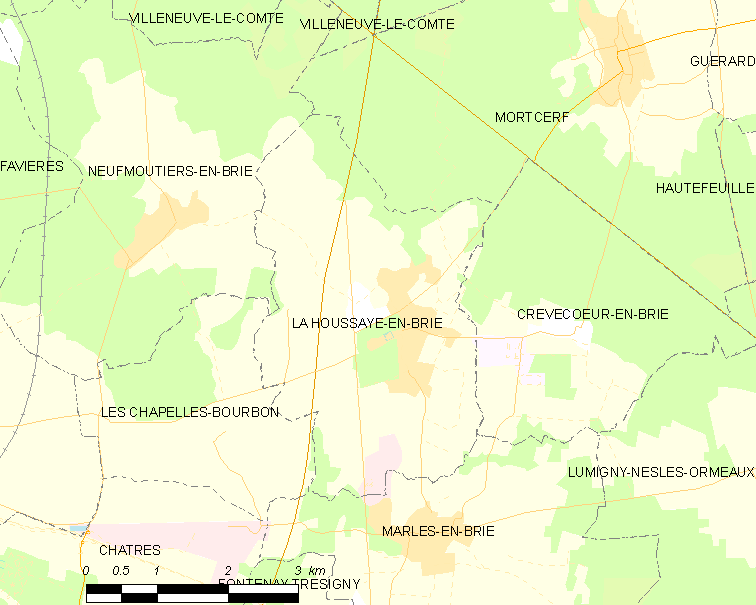 Map of French municipality La Houssaye-en-Brie